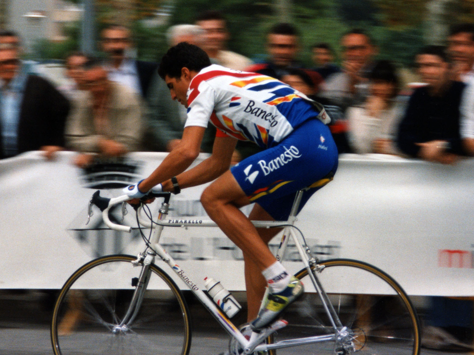 Cyclist Miguel Indurain during the XXI Criterium Ciutat de L'Hospitalet.